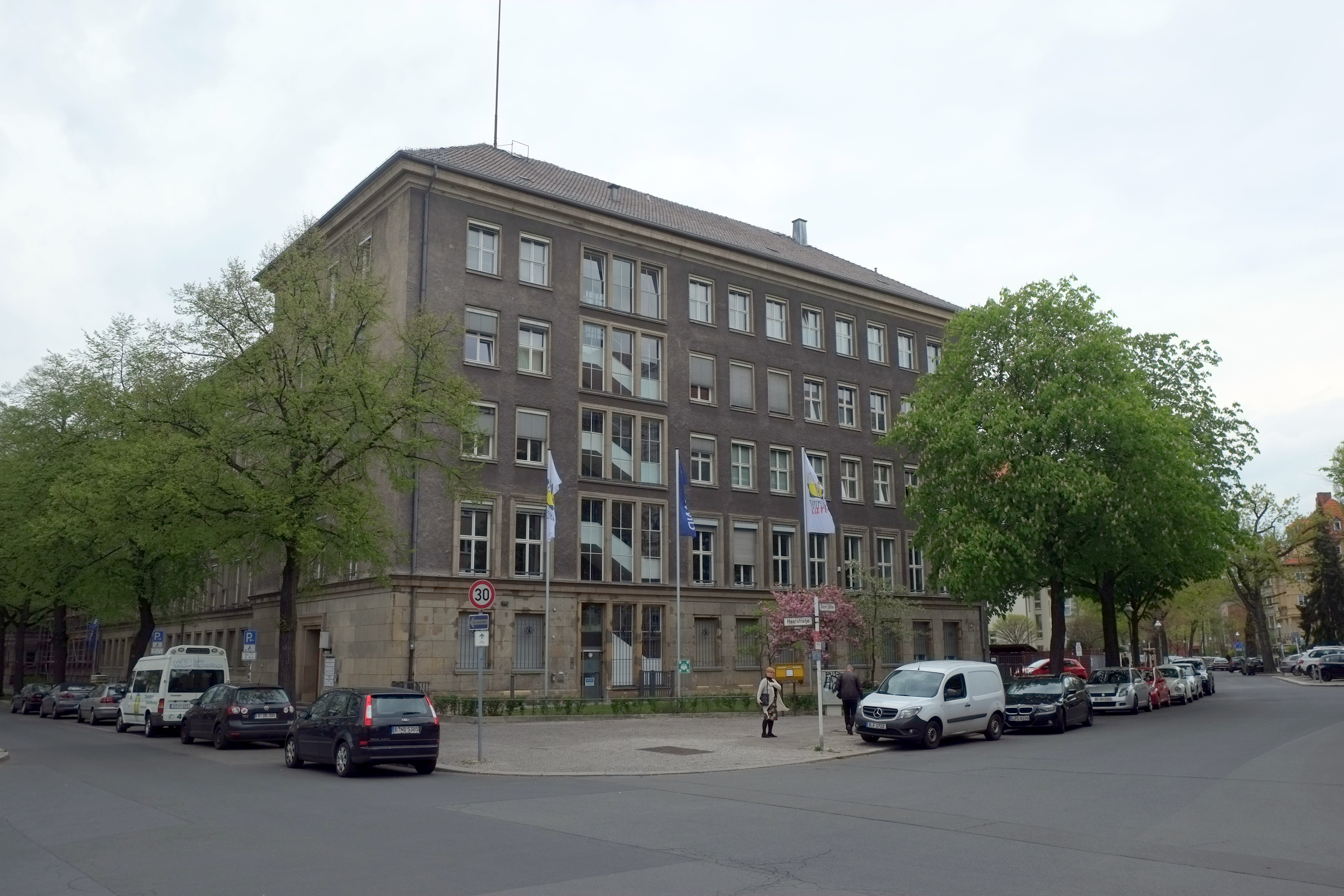 office building Heerstraße 12–16, Berlin, Germany